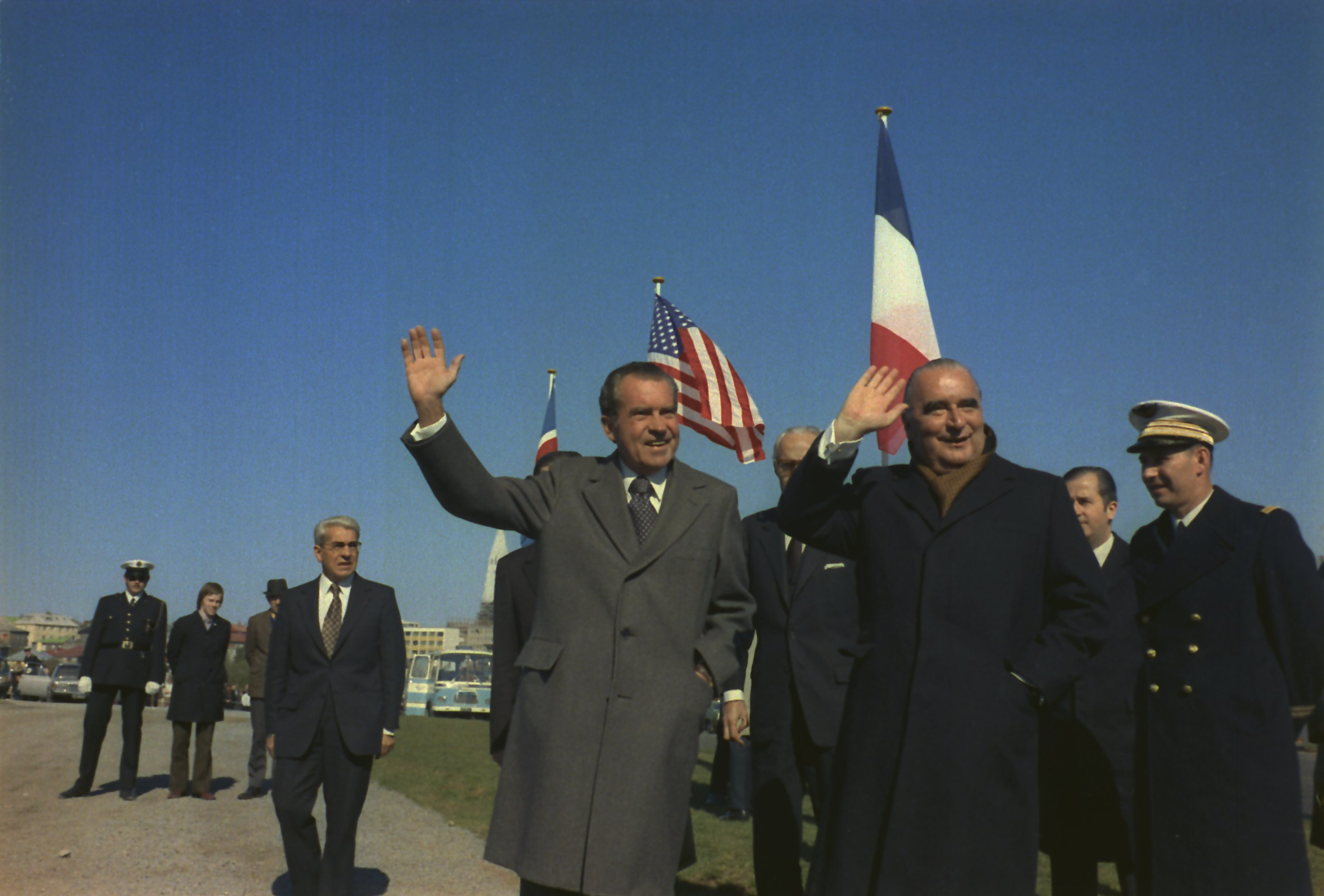 US President Nixon and French President George Pompidou prior to U.S. French summit conference in Reykjavik, Iceland